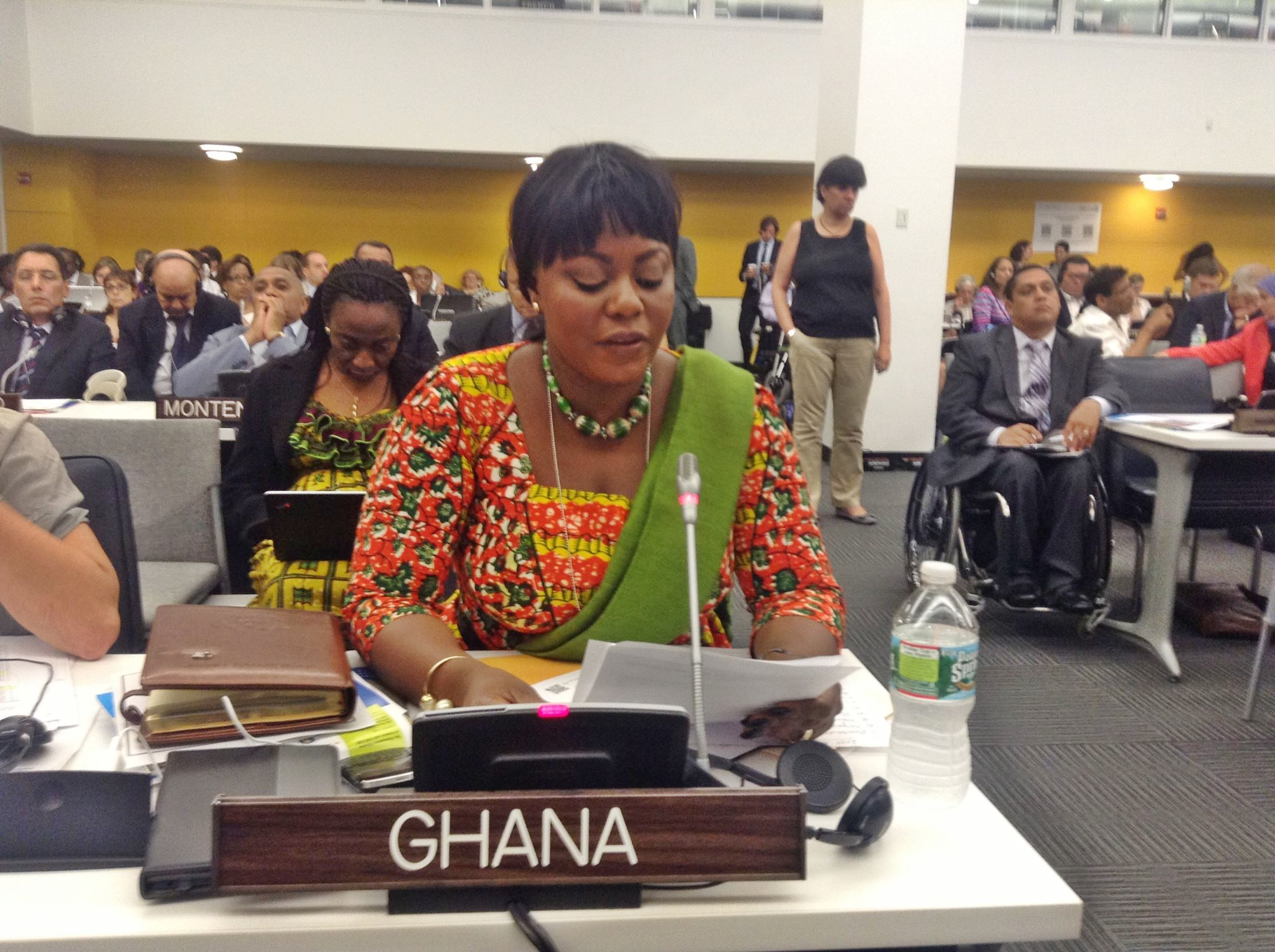 Benita Sena Okity-Duah as leader of Ghana's delegation to the United Nations 6th Session of the Conference of States Parties to the Convention on the Rights of Persons with Disabilities in New York between 17th and 19th July, 2013.